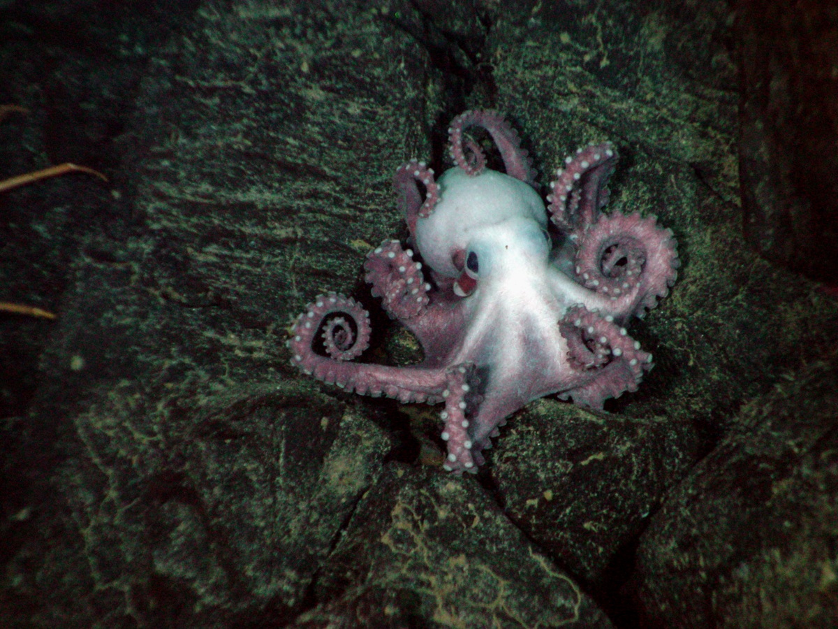 Ring of Fire This octopus was spotted on the side of a fault scarp during a geologic traverse.